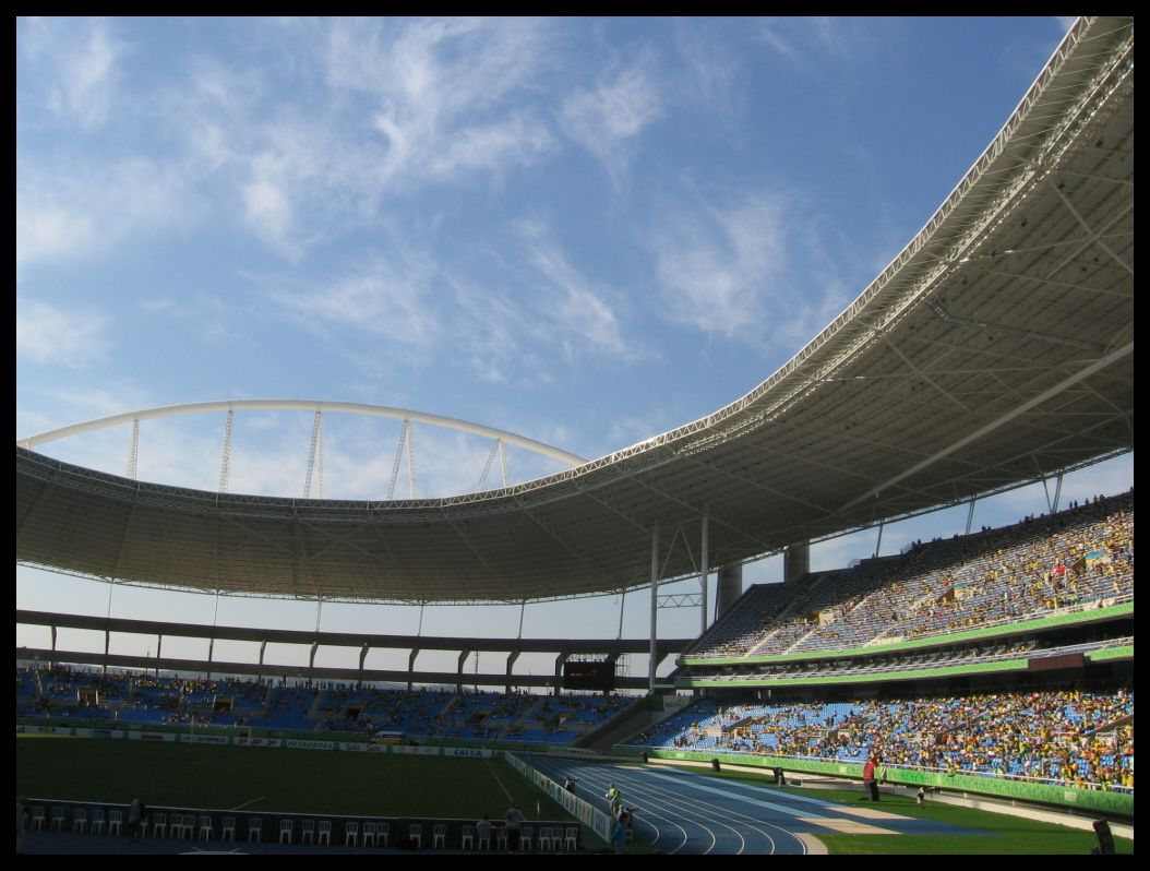 Panamerican Games!! Brazil!!